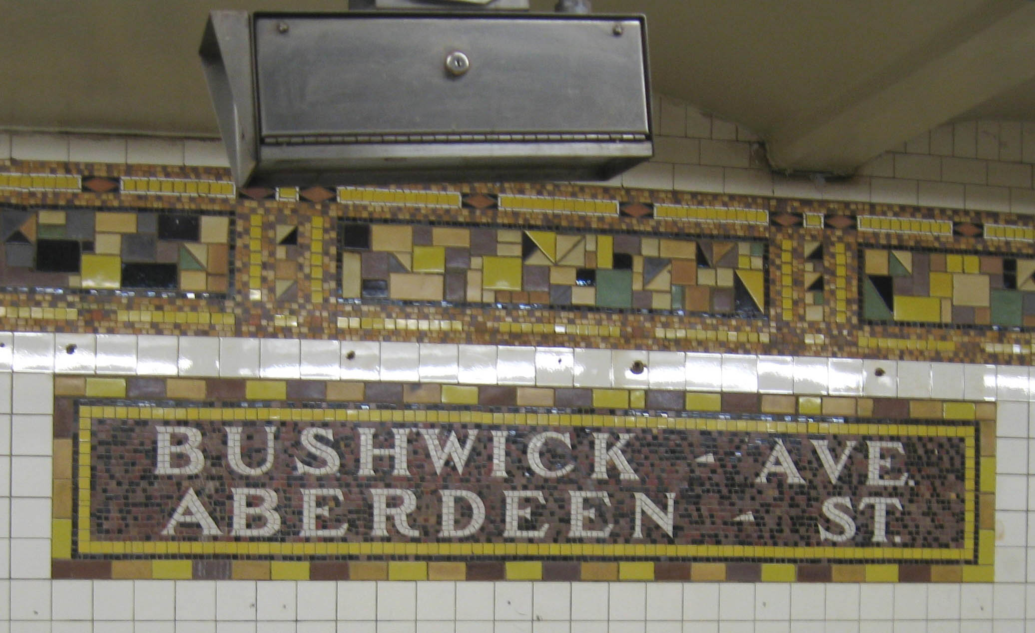 Looking south at southbound platform's ID mosaic for Bushwick Avenue–Aberdeen Street (BMT Canarsie Line)